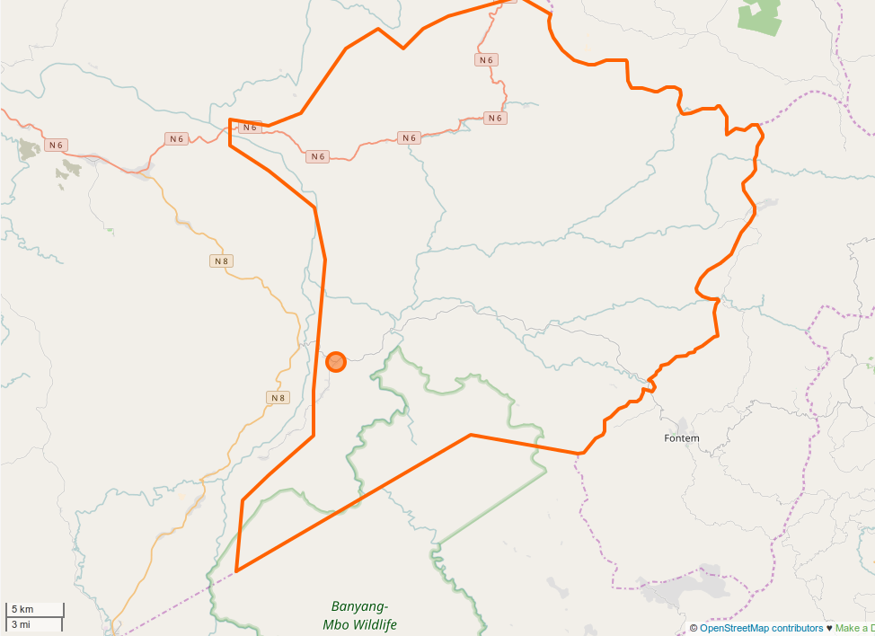 Tinto in Cameroon ː city boundaries with OSM. This map may be incomplete, and may contain errors. Don't rely solely on it for navigation.